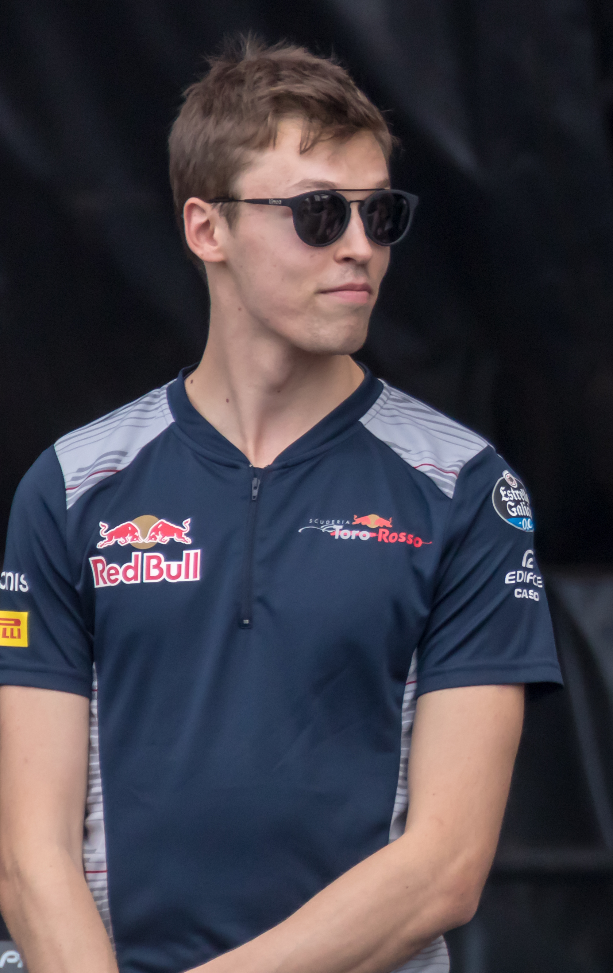 Brendon Hartley and Daniil Kvyat